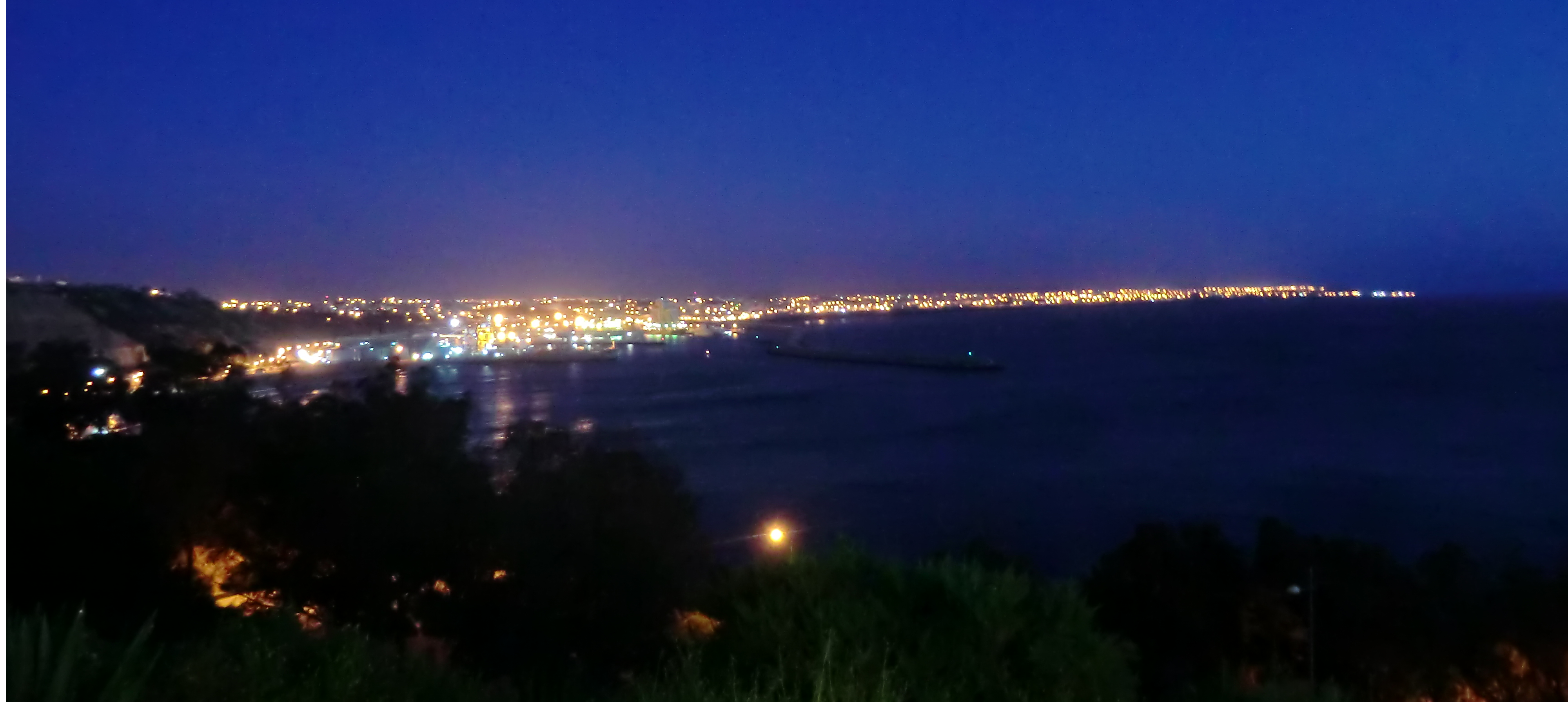 The City of Asfi/Safi, Morocco by night